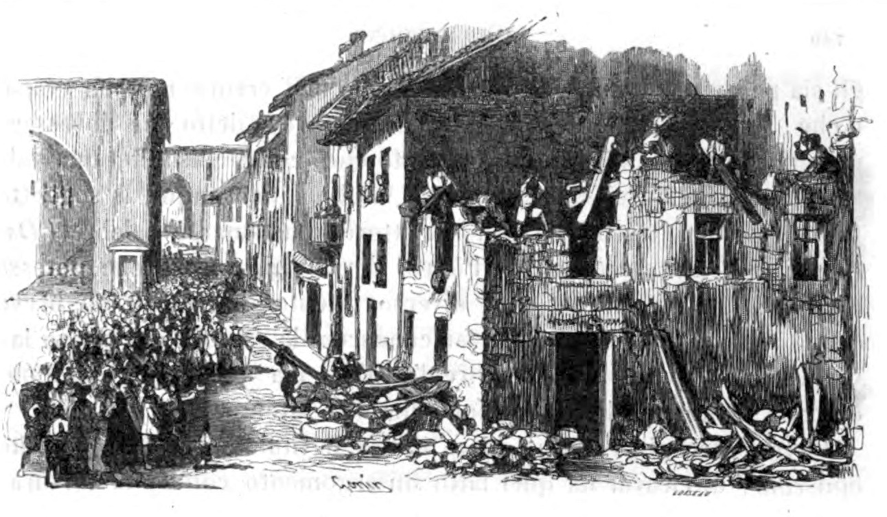 The most famous Italian historical romance,and the masterpiece of Alessandro Manzoni.